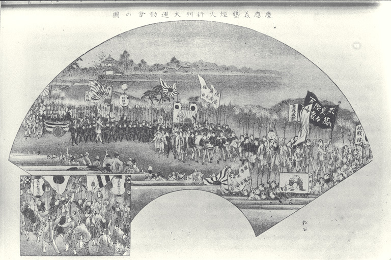 Victory parade for the Battle of Weihaiwei. Keio gijuku, Tokyo, 1895. An illustration published in a news magazine.